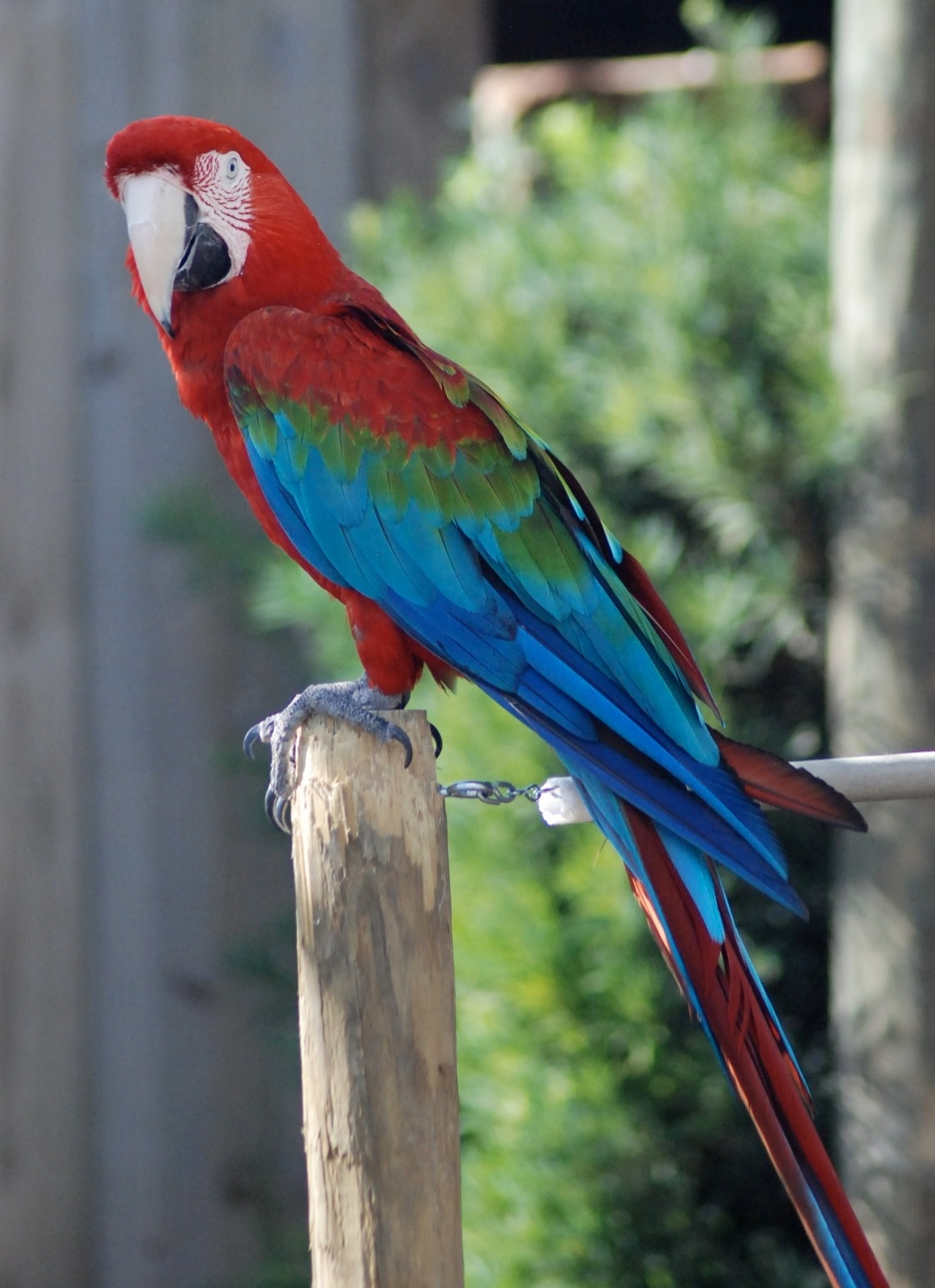 Green-winged Macaw or Red-and-green Macaw (Ara chloropterus) at Gatorland.